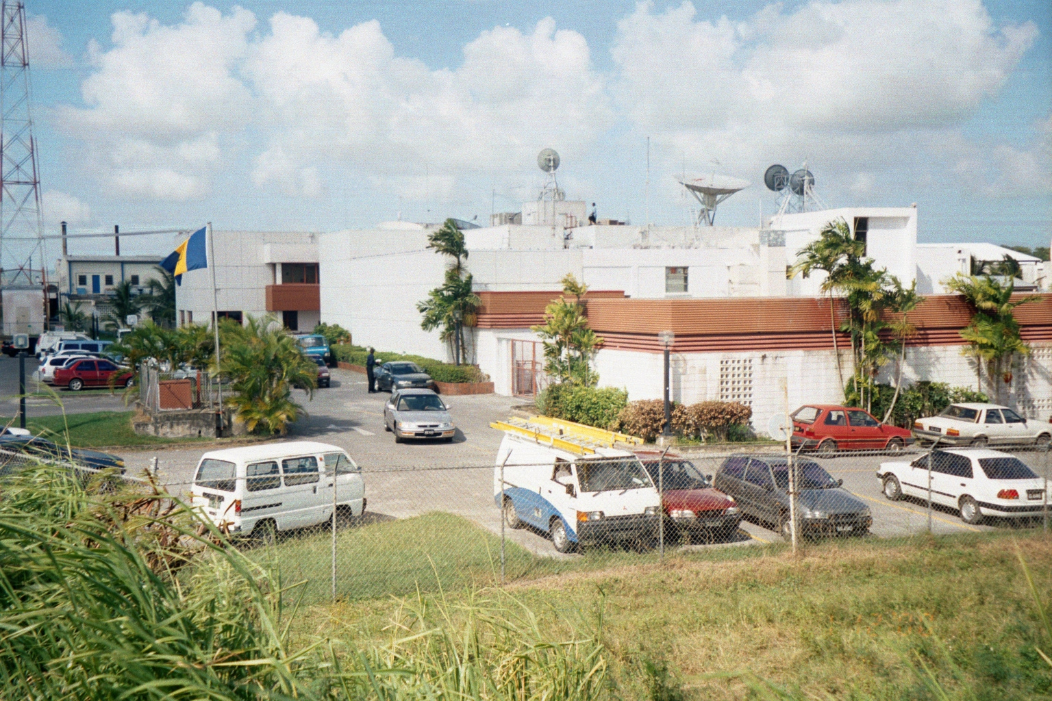 Photo of the Caribbean Broadcasting Corporation (CBC) in the area of The Pine, St. Michael in the country of Barbados. (c.a. November 2000)